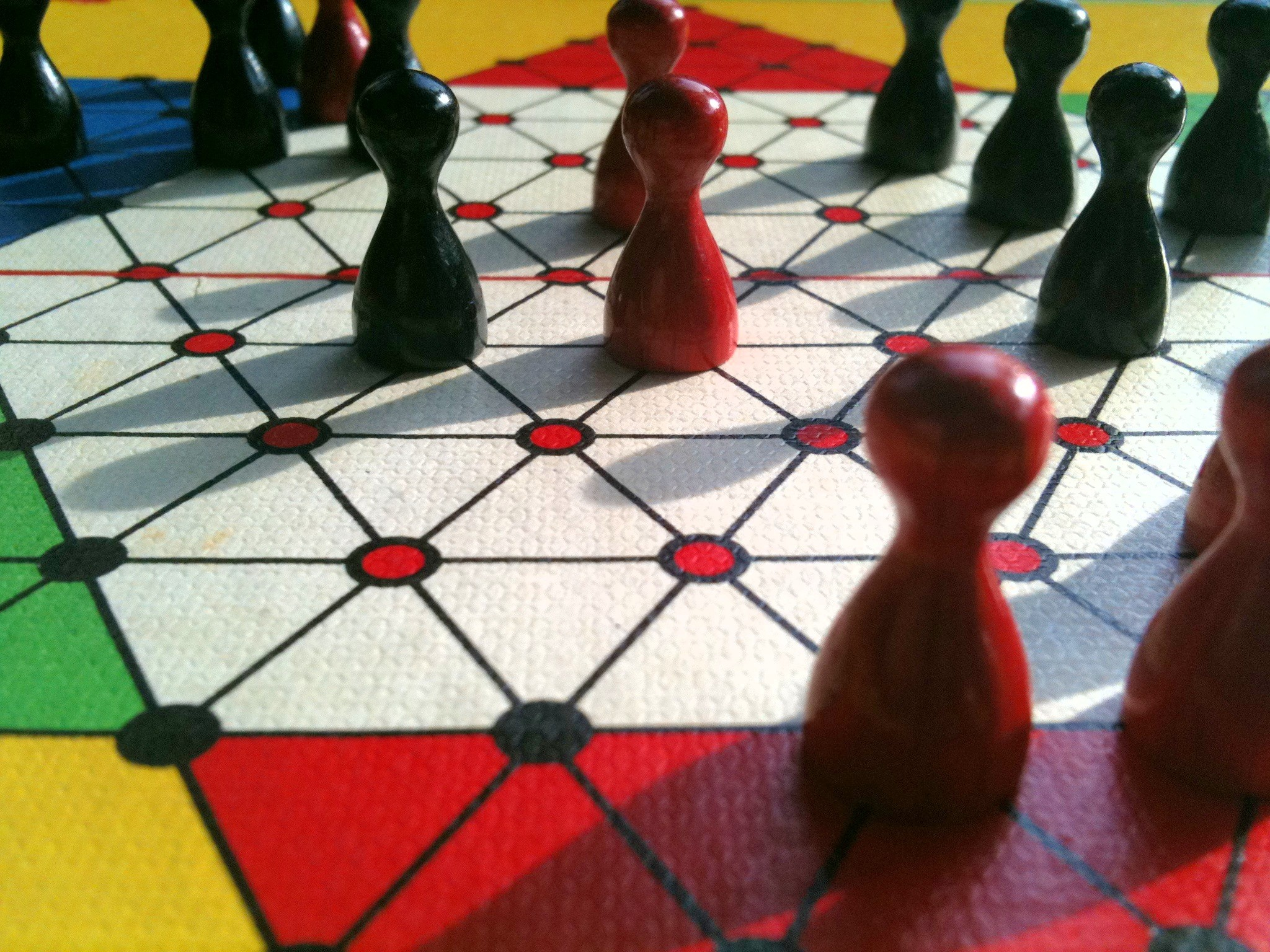 A game of Halma (Chinese checkers) played outside in the sunshine.